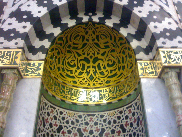 Prophet Mohammad Mihrab in Al-Masjid al-Nabawi